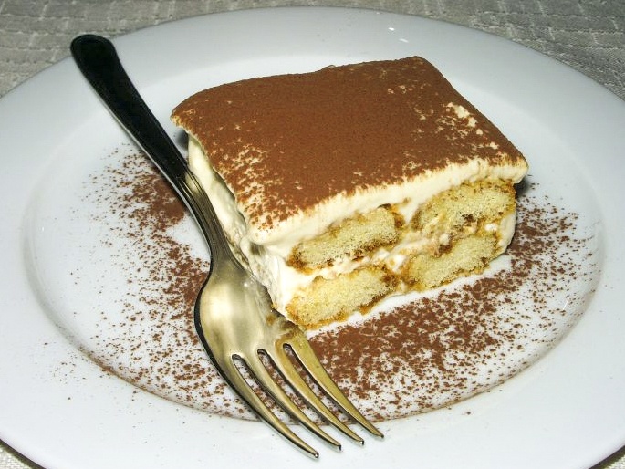 Tiramisu served at the "Ücia de Fanes" in South Tyrol